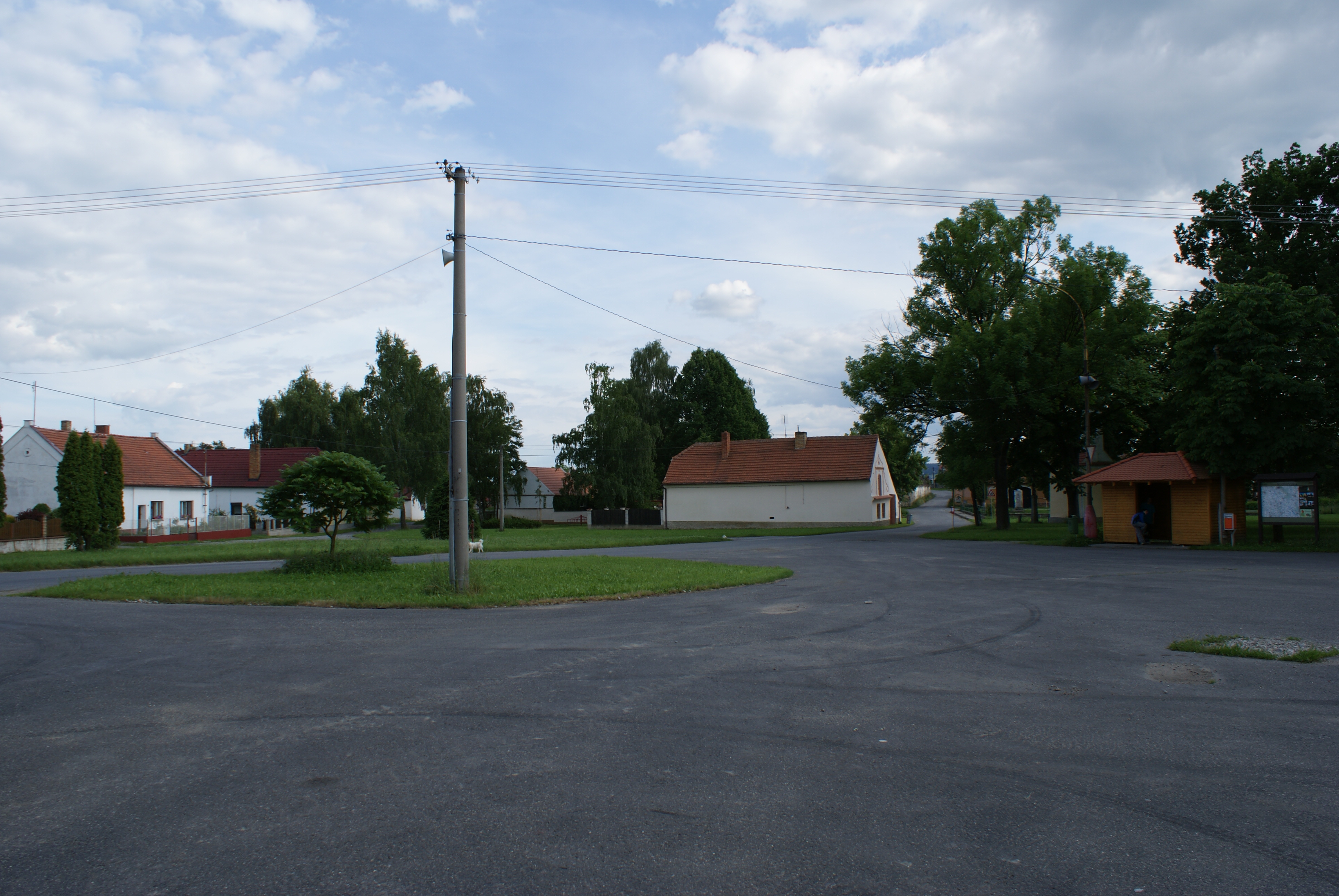 Křtětice, a village in Strakonice district, Czech Republic, the village common.